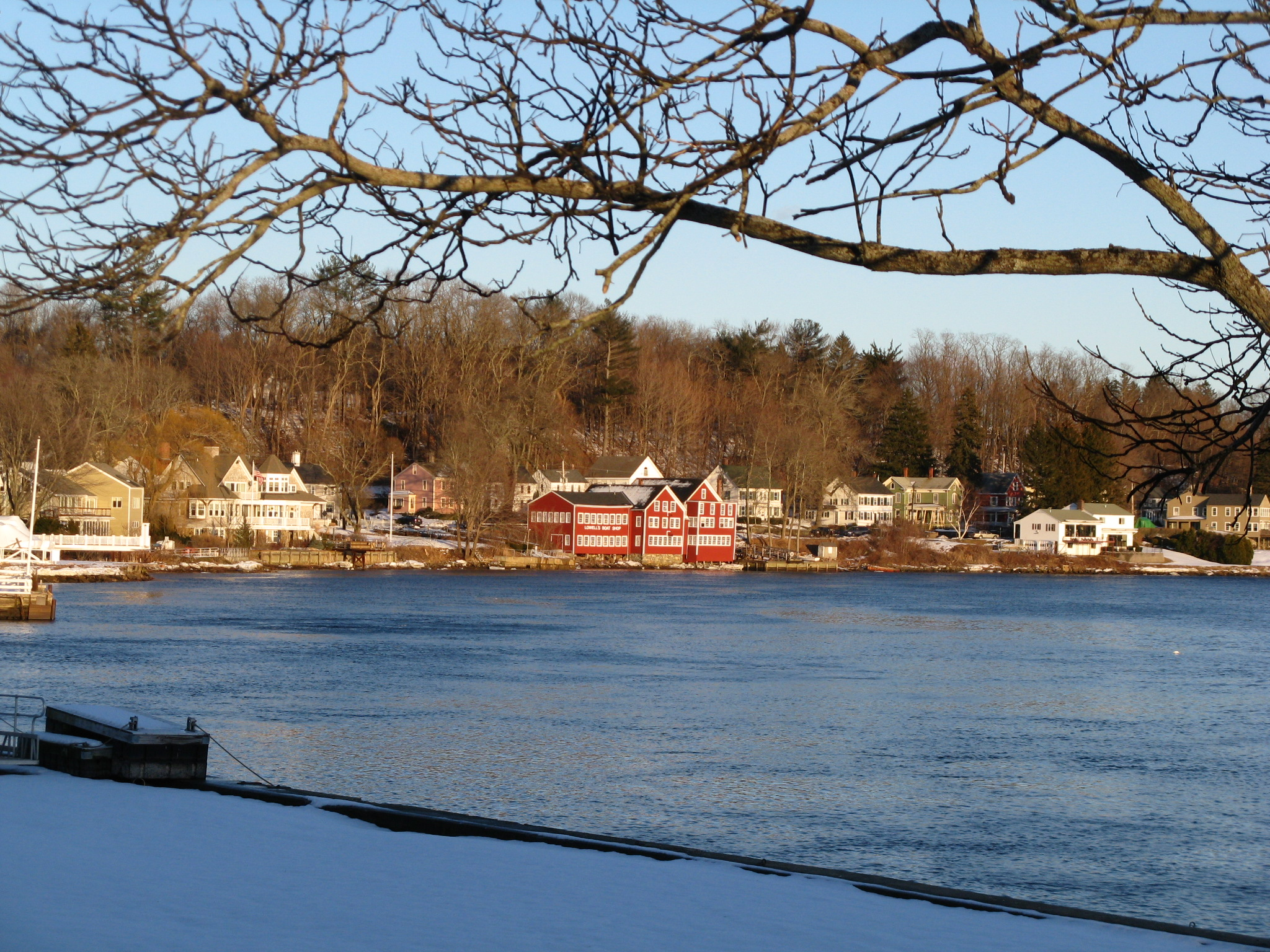 Lowell's Boat Shop, Amesbury Massachusetts - red building in center